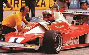 Niki Lauda preparing for the 1976 Italian Grand Prix